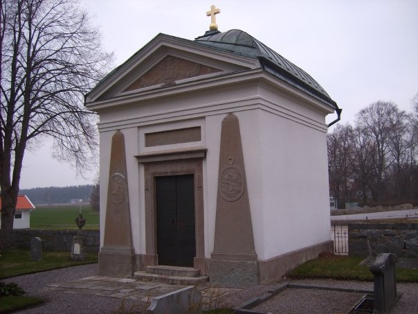 The church in Tåby.